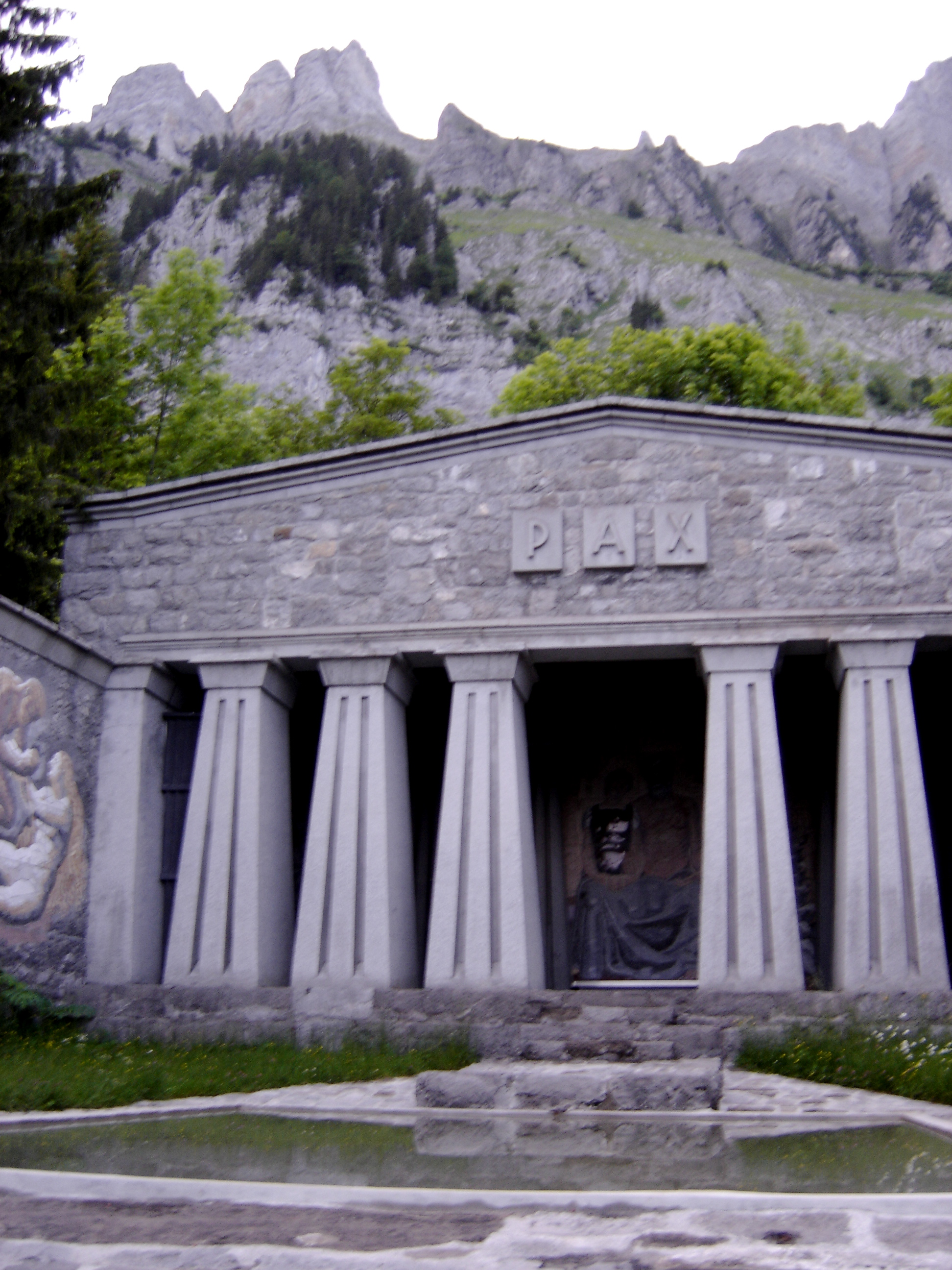 Photo taken near the Paxmal, Switzerland